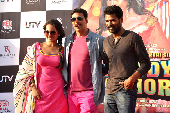 Sonakshi Sinha,Akshay Kumar,Prabhu Dheva From The Promotional rickshaw race for 'Rowdy Rathore'